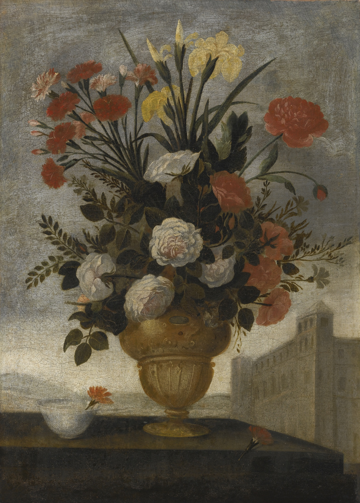 Still life of iris, lilies, roses and carnations in elaborate urn, with a blue and white cup and a small glass vase; landscape beyond (one of a pair) oil on canvas, 94 x 73.7 cm